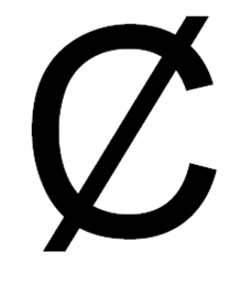 C with stroke